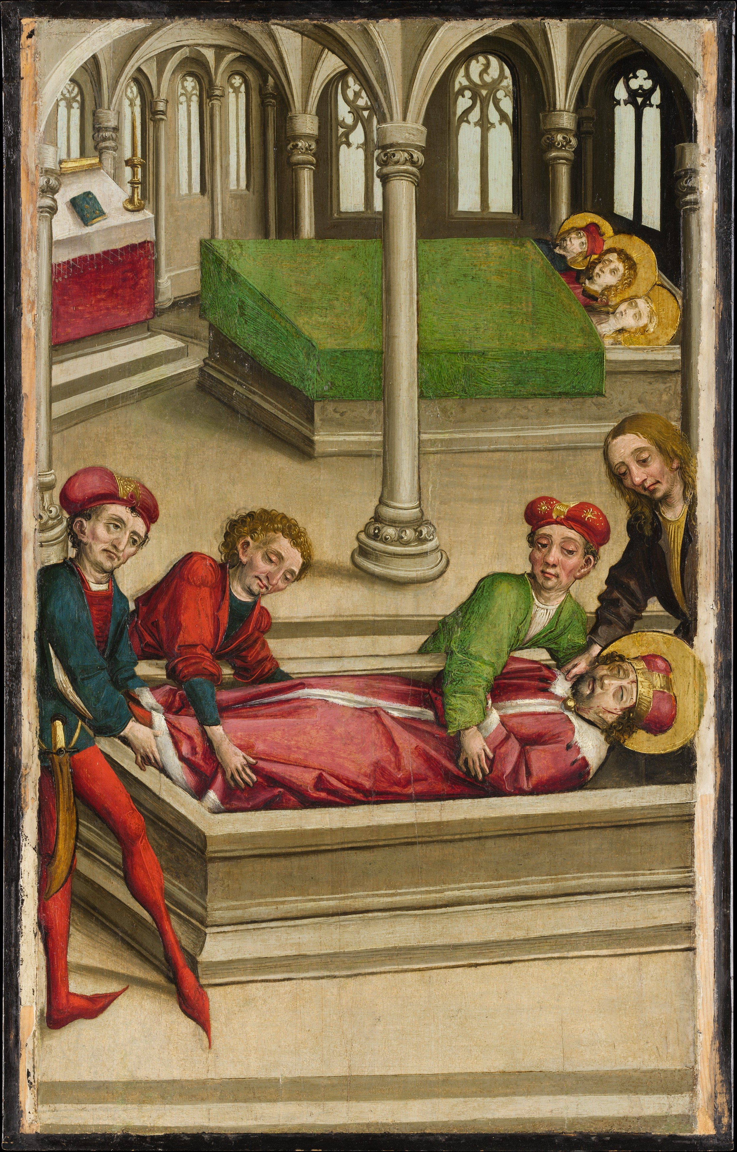 Painting, part of an altarpiece; Paintings